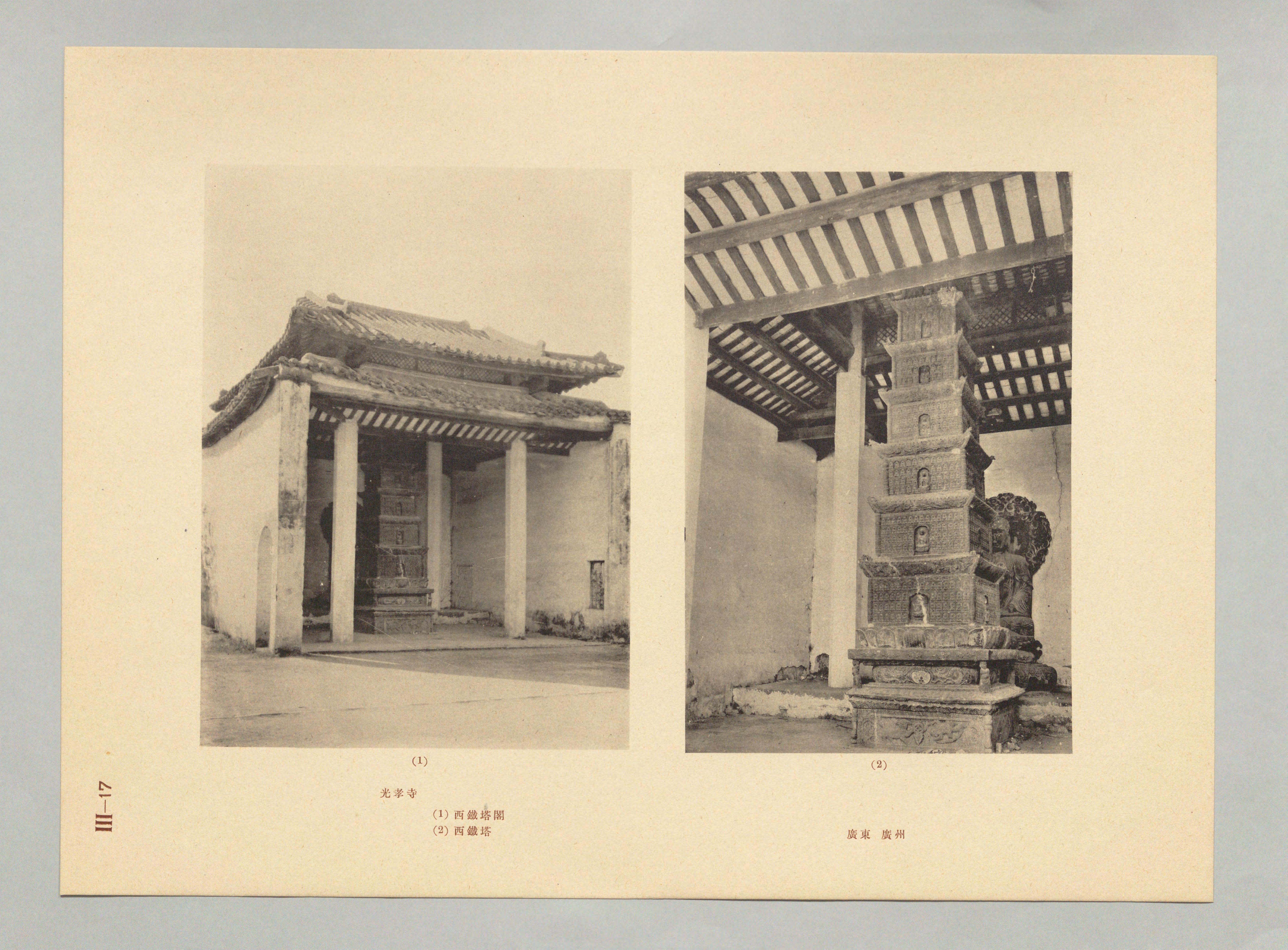 Western iron tower in the Temple of Bright Filial Piety